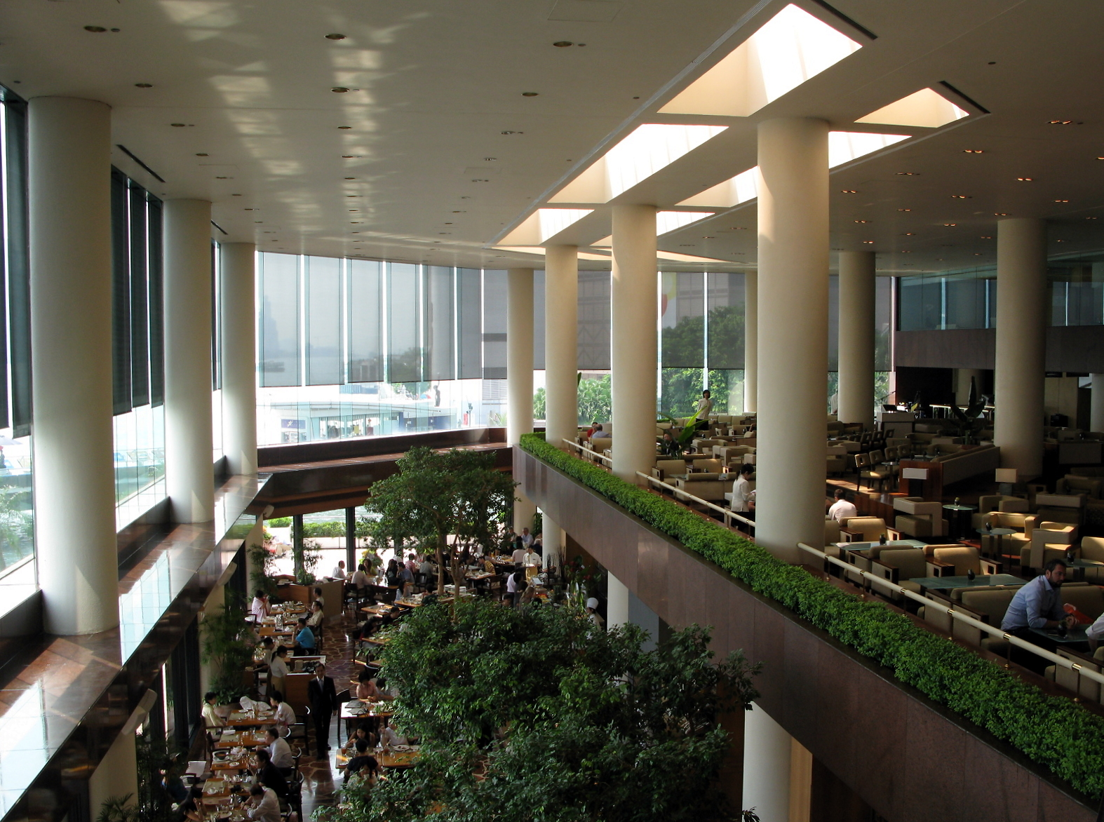 InterContinental Hong Kong Lobby